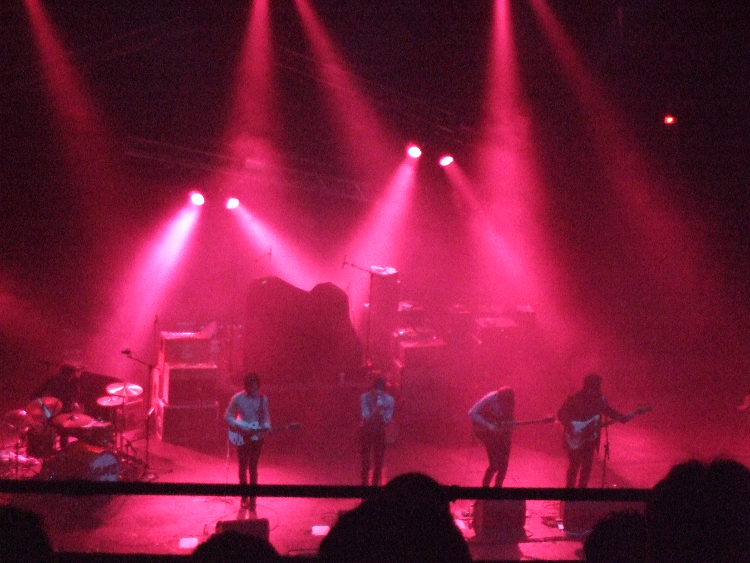 The band Joe Lean and the Jing Jang Jong during the NME Awards Tour in support of The Cribs.